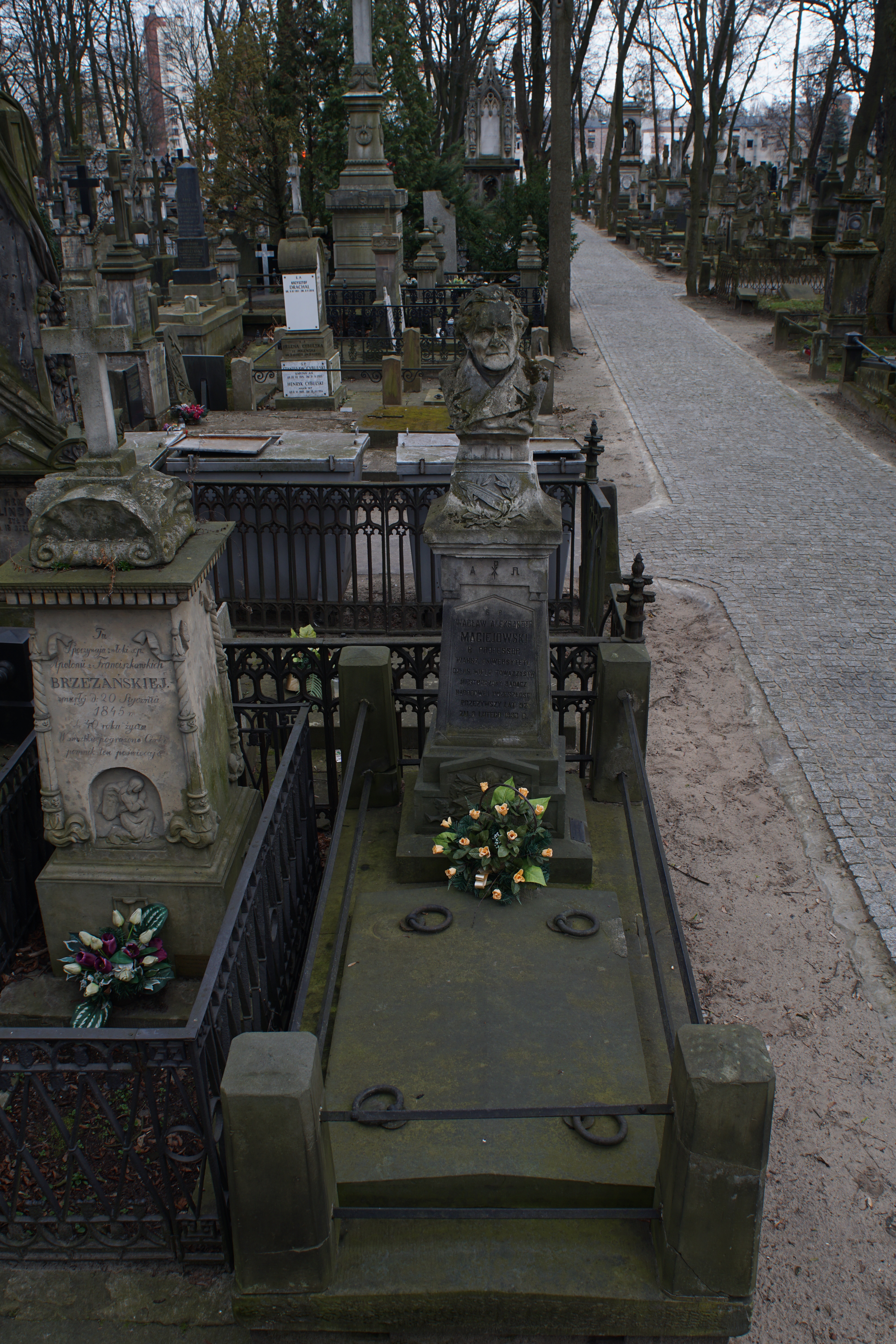 The grave of Wacław Aleksander Maciejowski at the Powązki Cemetery (section 3, row 2, grave 31)